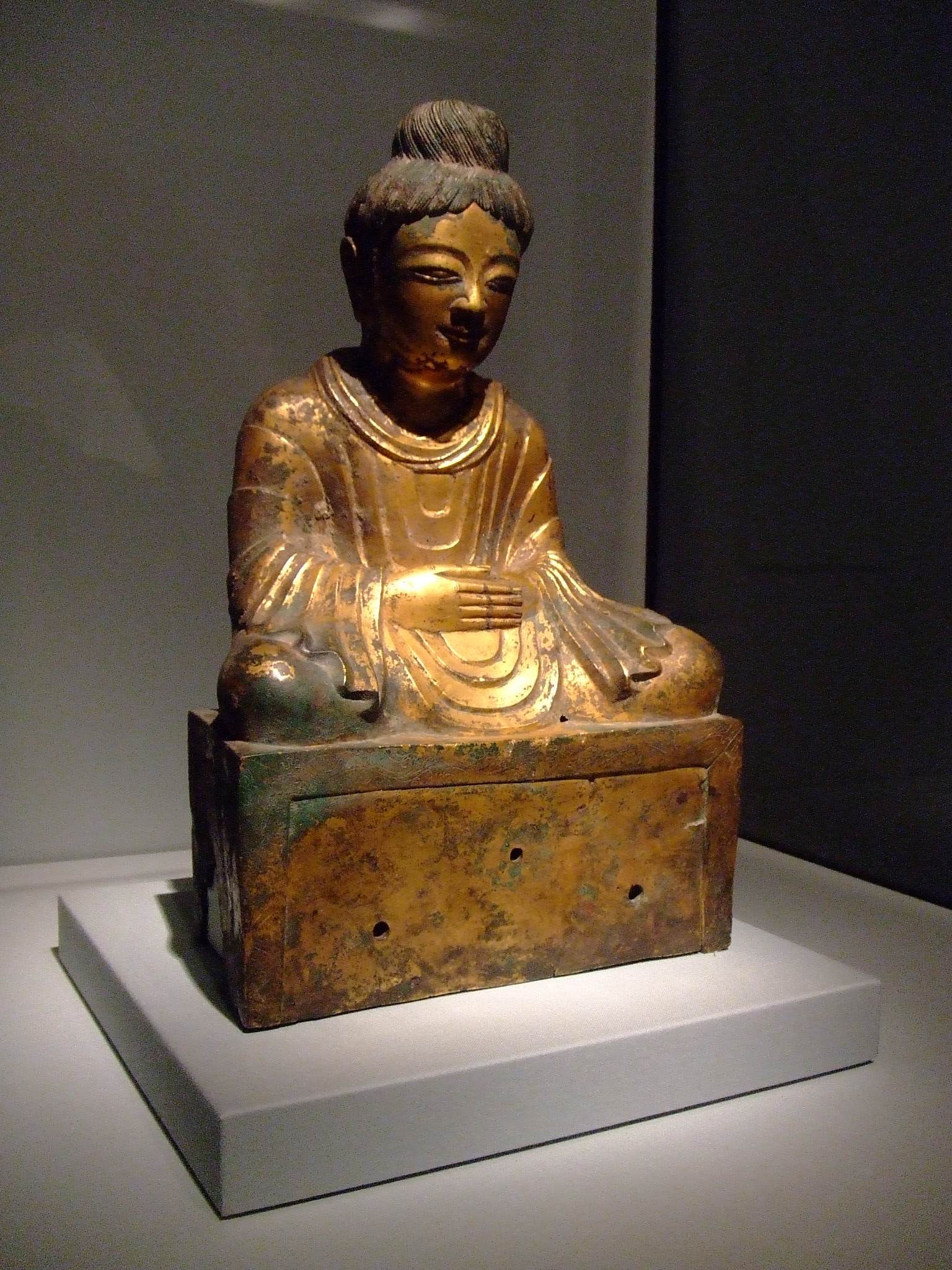 Seated Buddha. Six Dynasties period, 338. Gilt bronze. Asian Art Museum of San Francisco, Avery Brundage Collection.